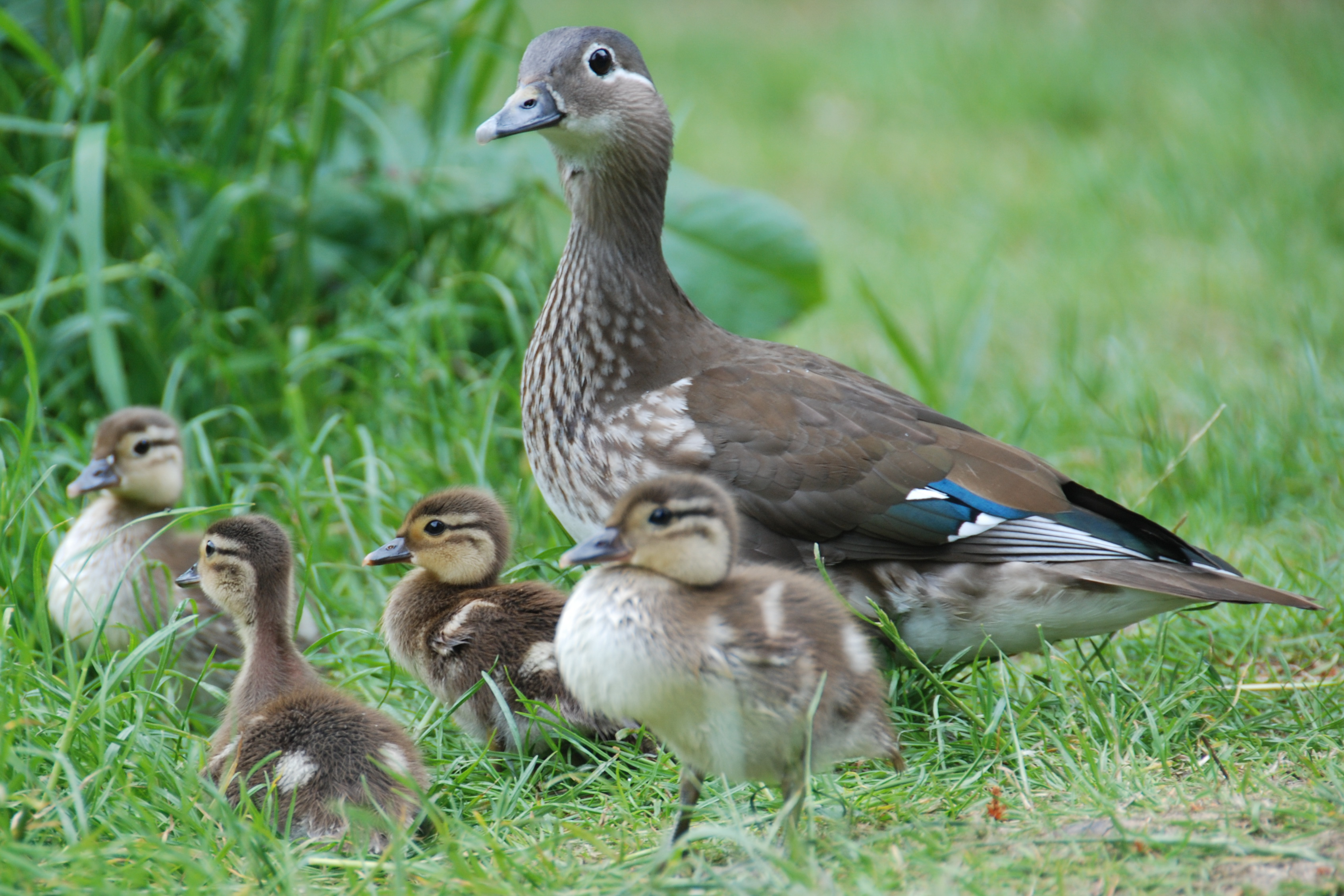 Mother Mandarin Duck with her growing chickens at the pond behind Hotel Warnsborn Schaarsbergen